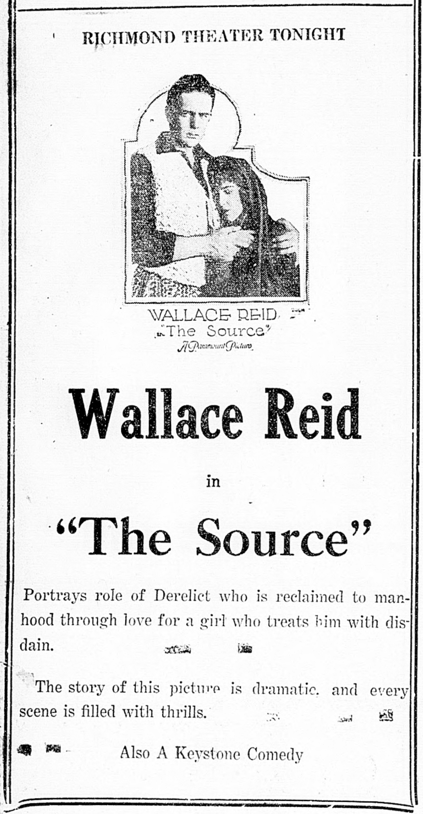 The Source is a lost 1918 American drama silent film directed by George Melford and written by Monte M. Katterjohn and Clarence Budington Kelland. This is a newspaper advertisement.